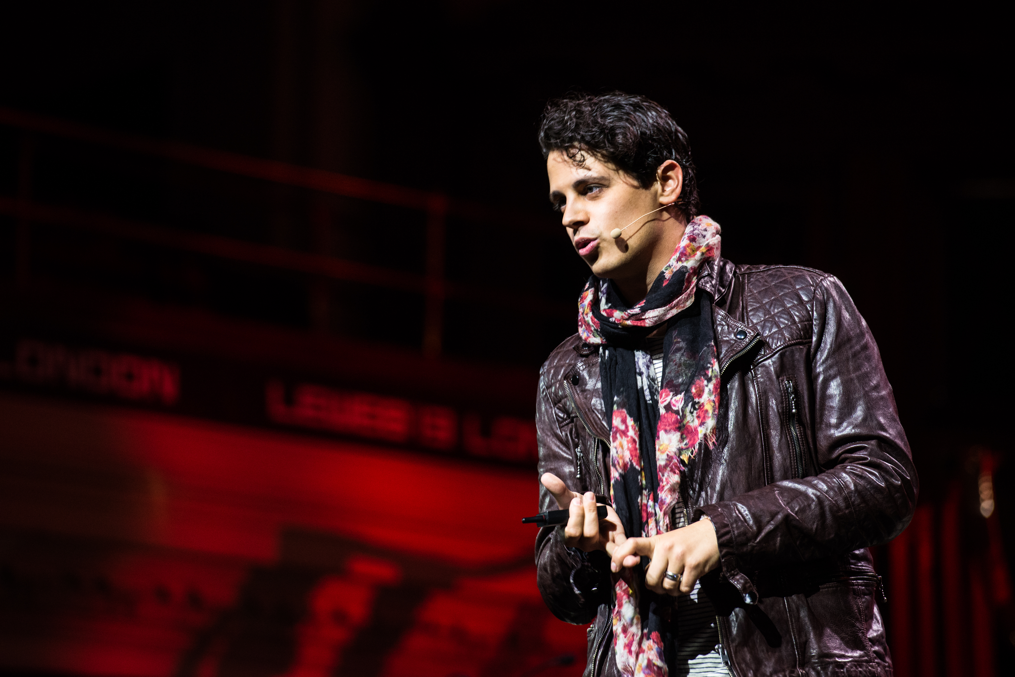 Photos by @Kmeron for LeWeb13 Conference @ Central Hall Westminster - London